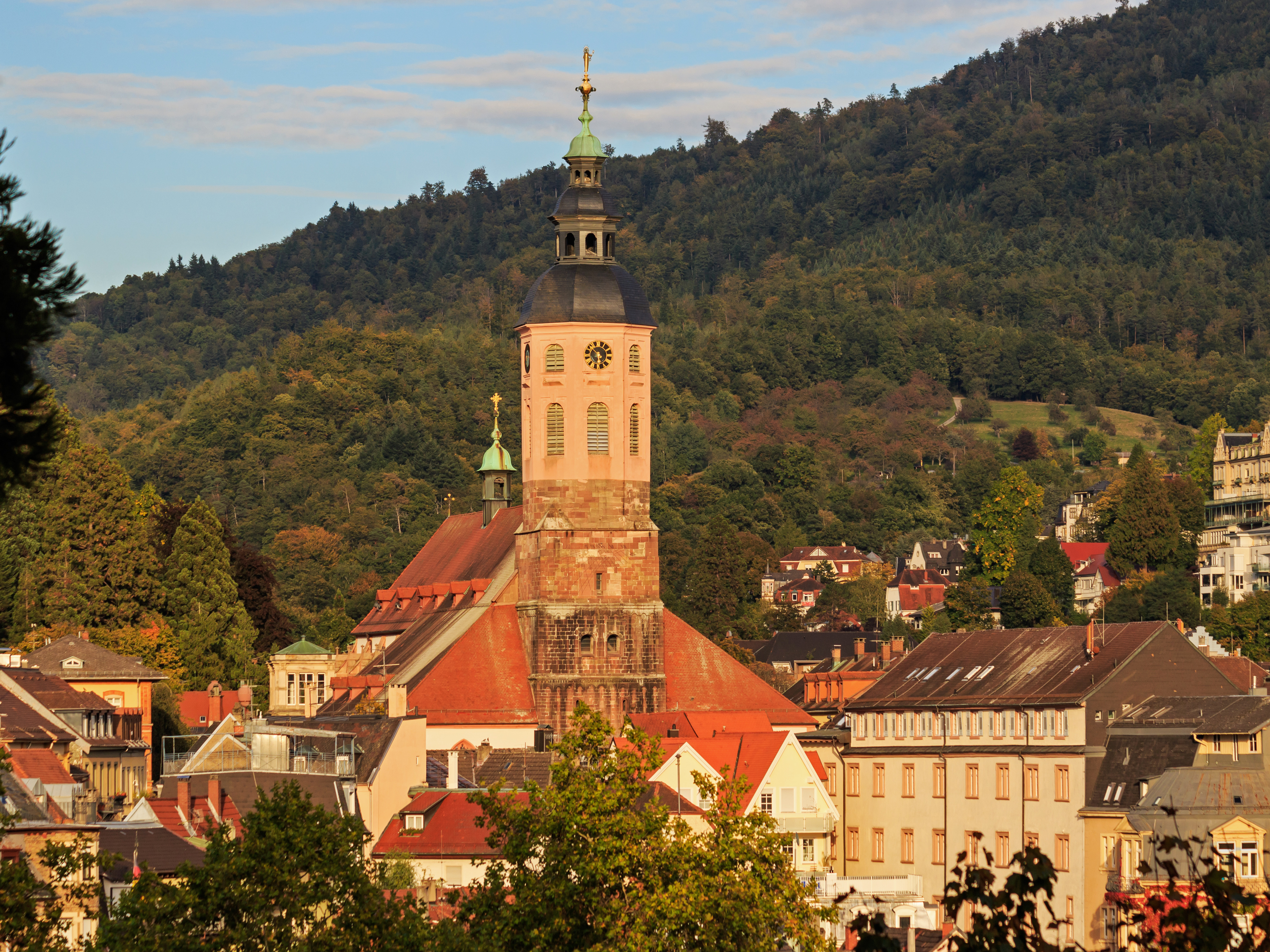 View from the Kurpark in Baden-Baden (BW, Germany). The photo shows the Stiftskirche Baden-Baden.